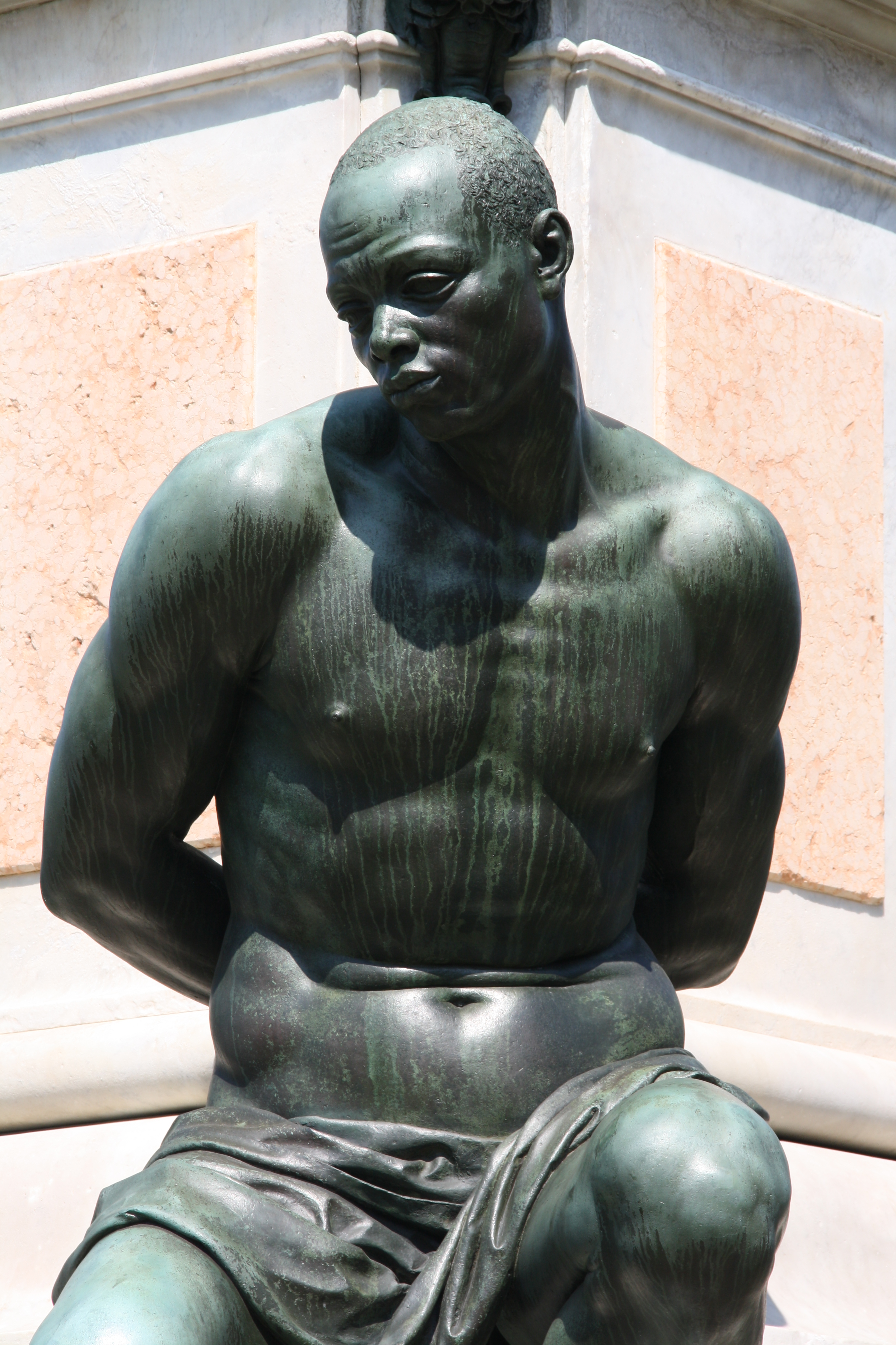 Italy, Livorno, Piazza Micheli, Monumento dei Quattro mori. Detail of the monument just restored.